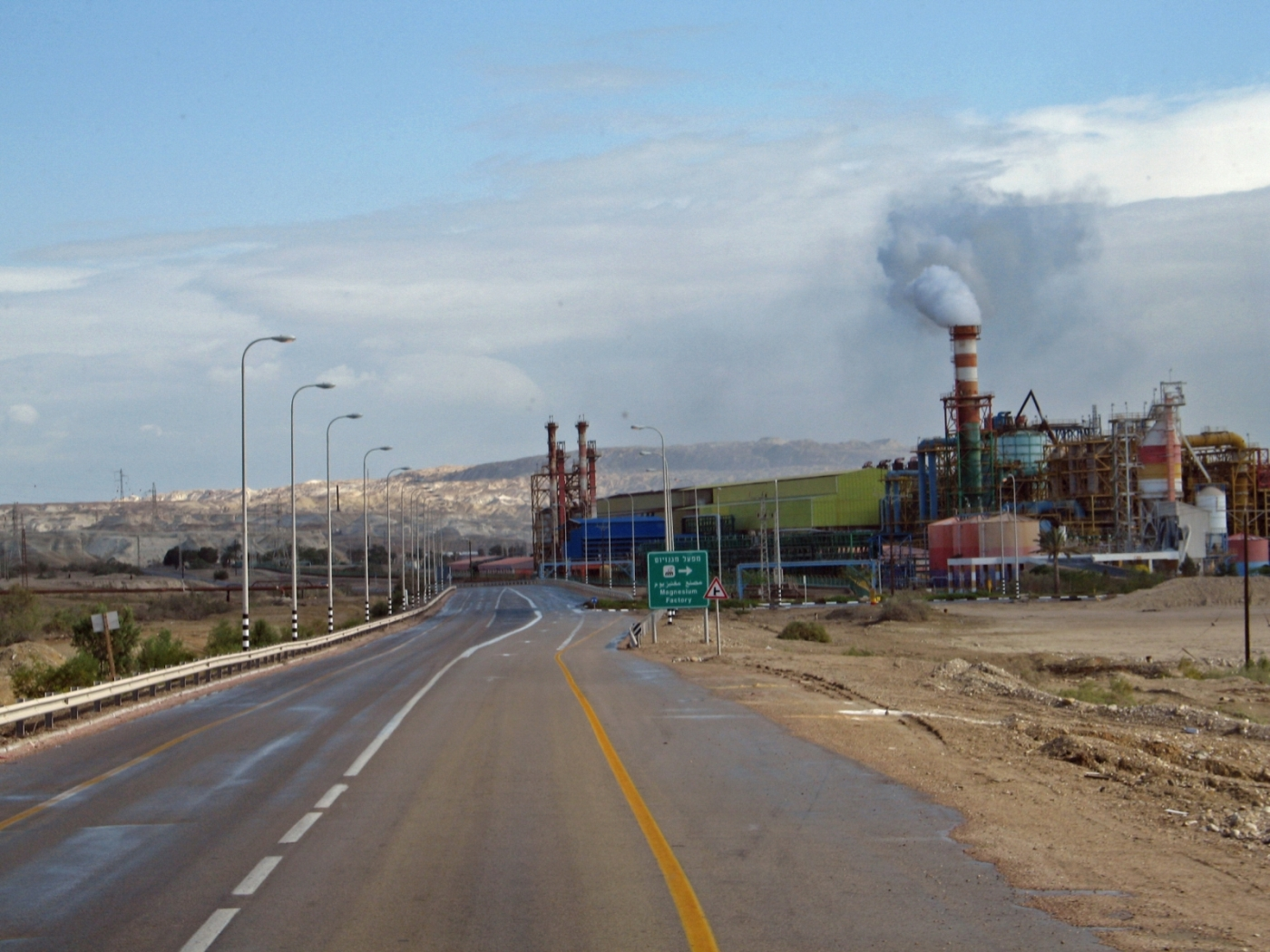 Magnesium factory. Israel